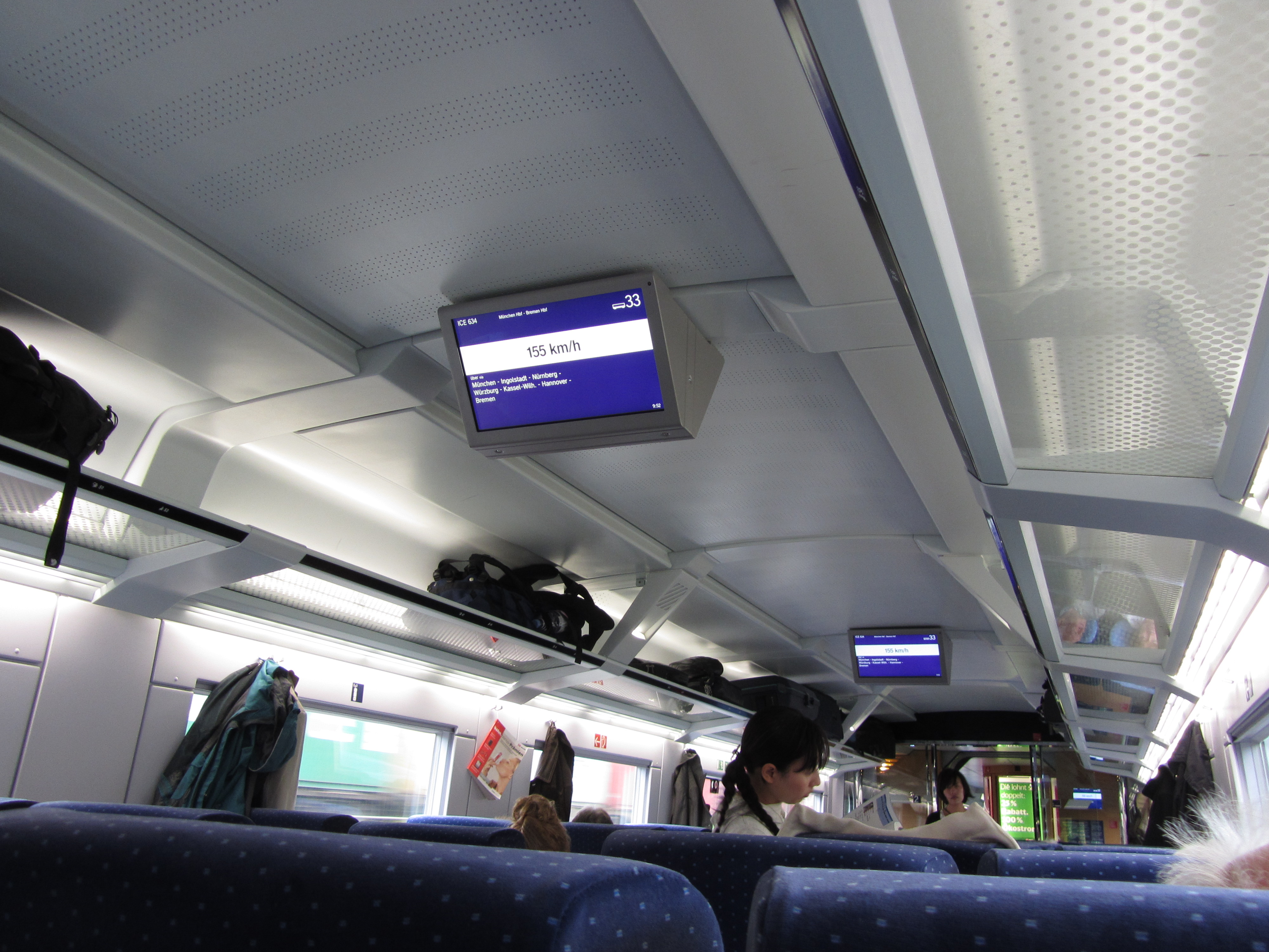 Refurbished ICE-2 (DB AG Class 402) saloon 2nd class with passenger information screens at the ceiling Maybe the better version compared to File:ICE-2_(DBAG_BR204)_refurbished_LWS97.jpg